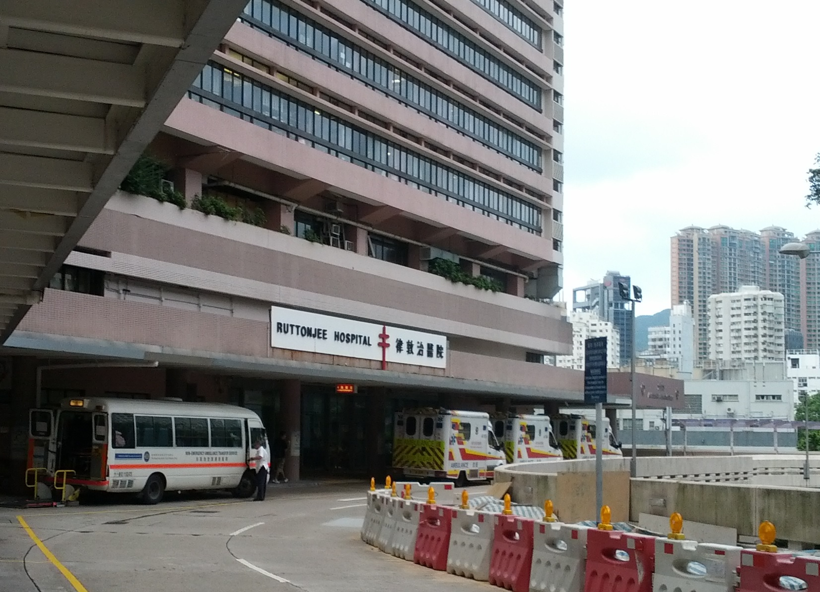 Ruttonjee Hospital, Wan Chai, Hong Kong